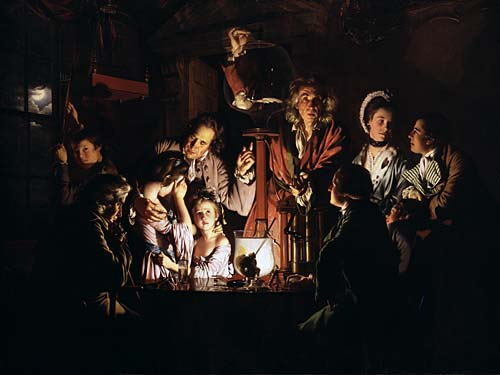 An Experiment on a Bird in an Air Pump by Joseph Wright of Derby, 1768, National Gallery, London REVERSED